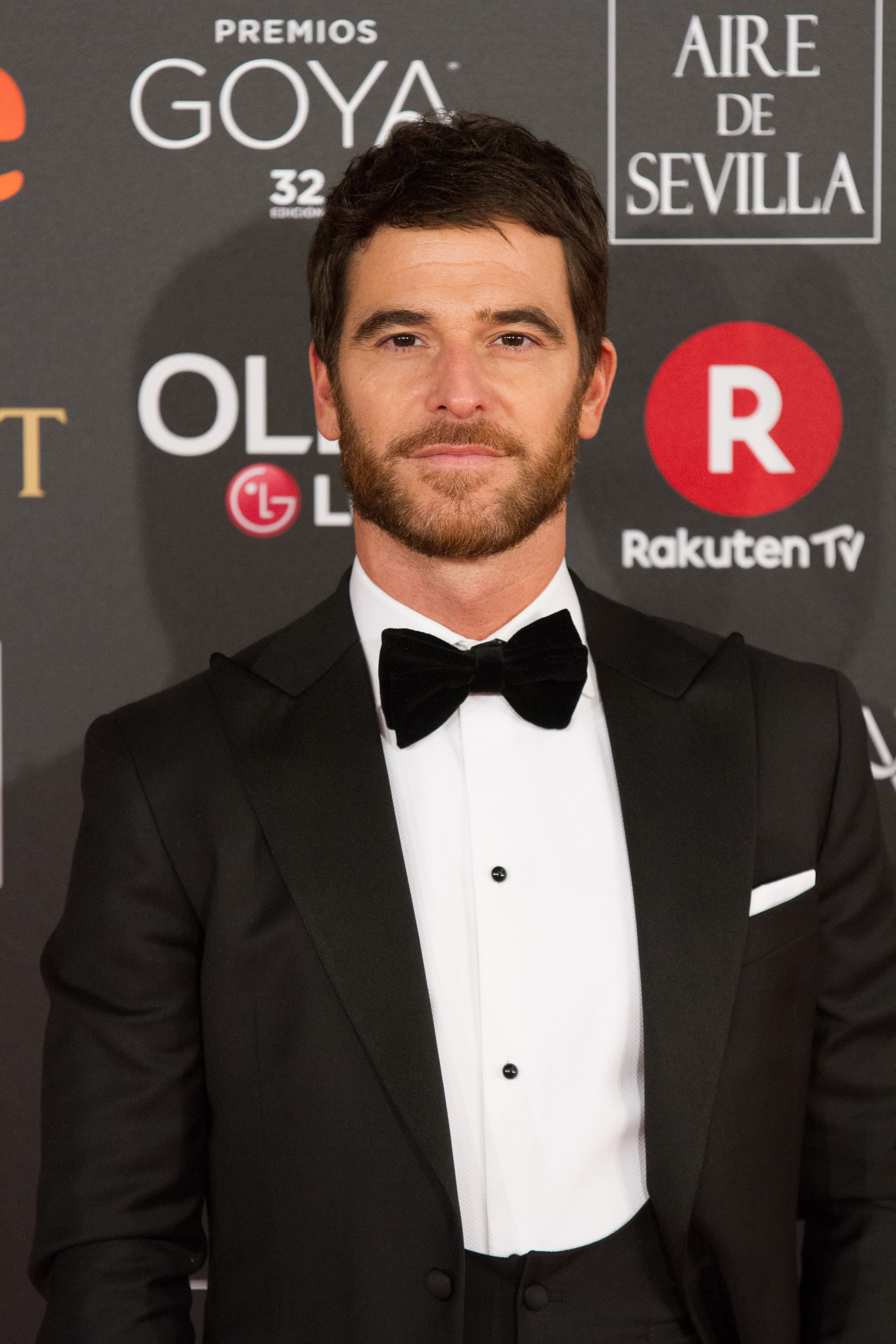 Alfonso Bassave at the 32nd Goya Awards, 2018.